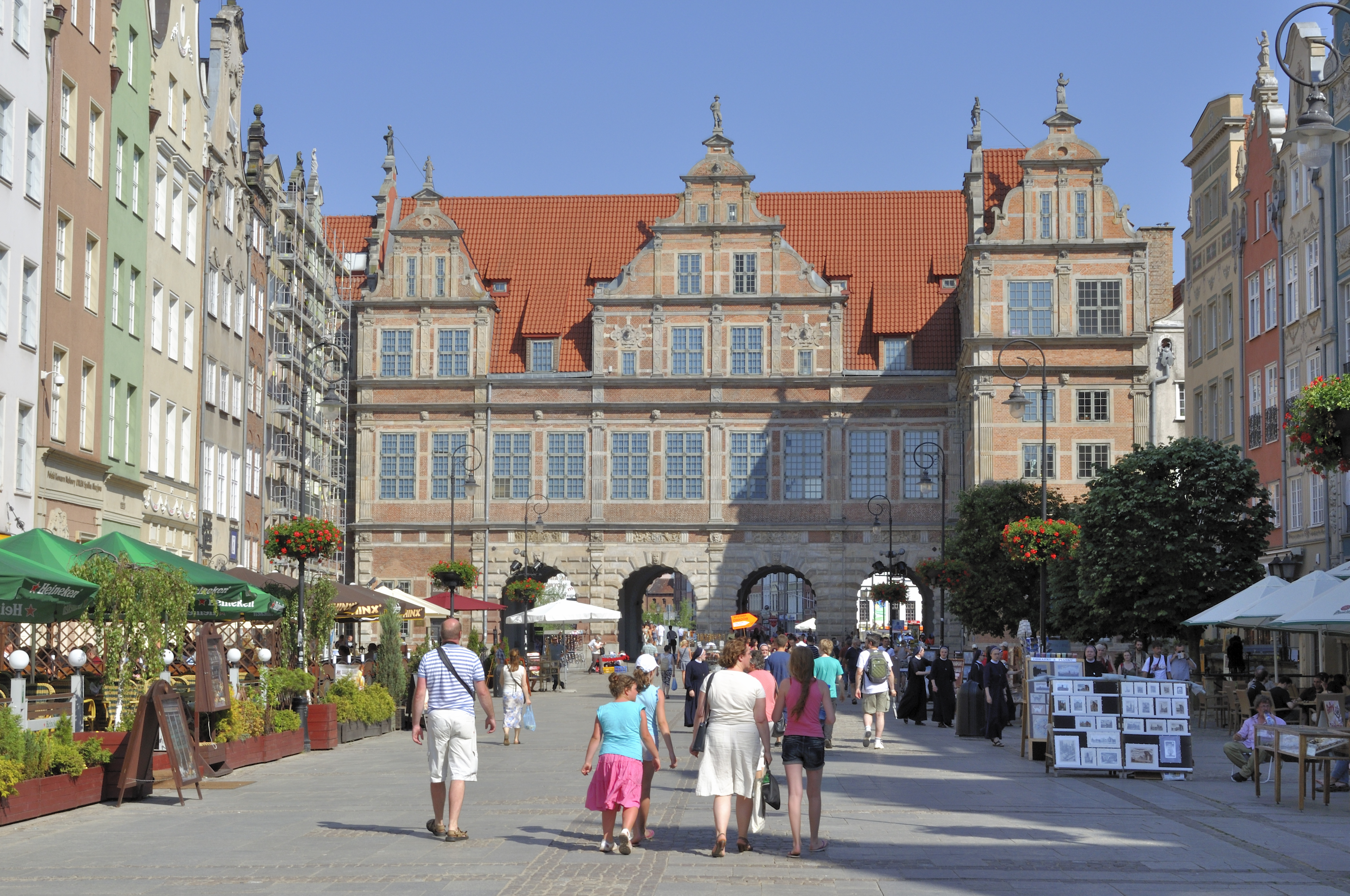 Green Gate in the Main Town of Gdańsk (a view from Długi Targ Square). Picture taken in Gdańsk after Wikimania 2010 conference.